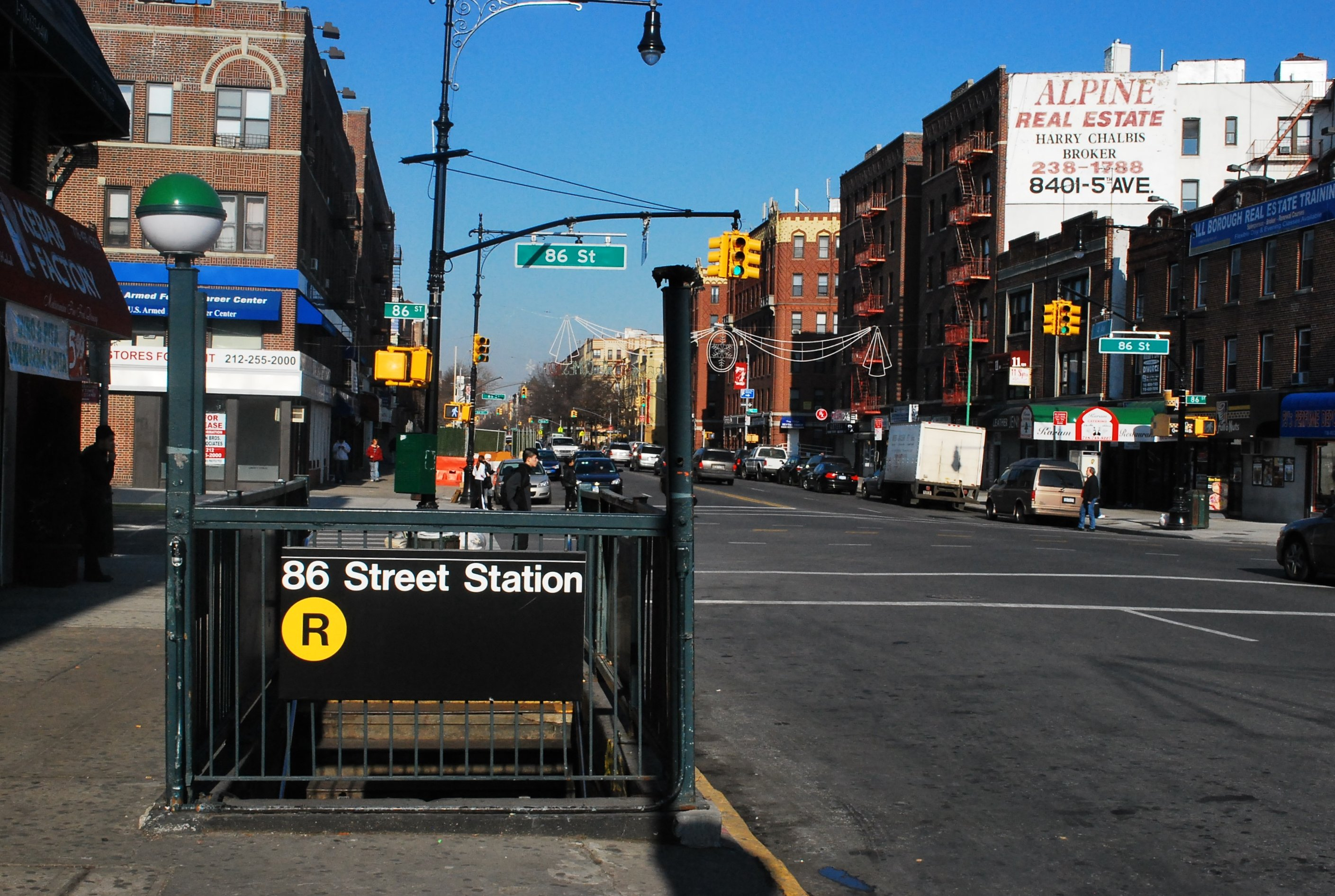 Loc 4th Avenue, Bayridge, Brooklyn, New York I got off the bus from Staten Island here and was pleasantly surprised to find a subway station and a chain of Dunkin Donuts. The New York Subway has a lot of faults, a lot, but one thing I do appreciate is the Helvetica. It gives the whole system a very regimented look and makes me wish that a bit more thought had gone into branding and signage on the stations.